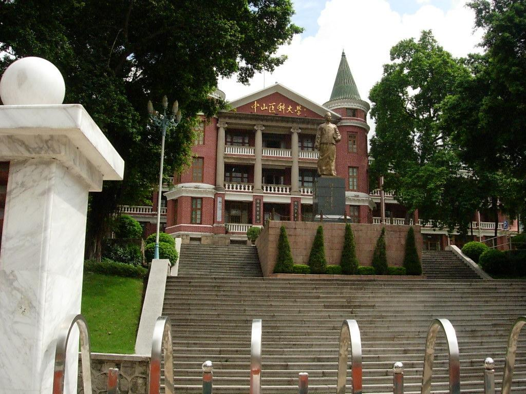 Sun Yat-sen University Medical campus in Canton, Kwangtung